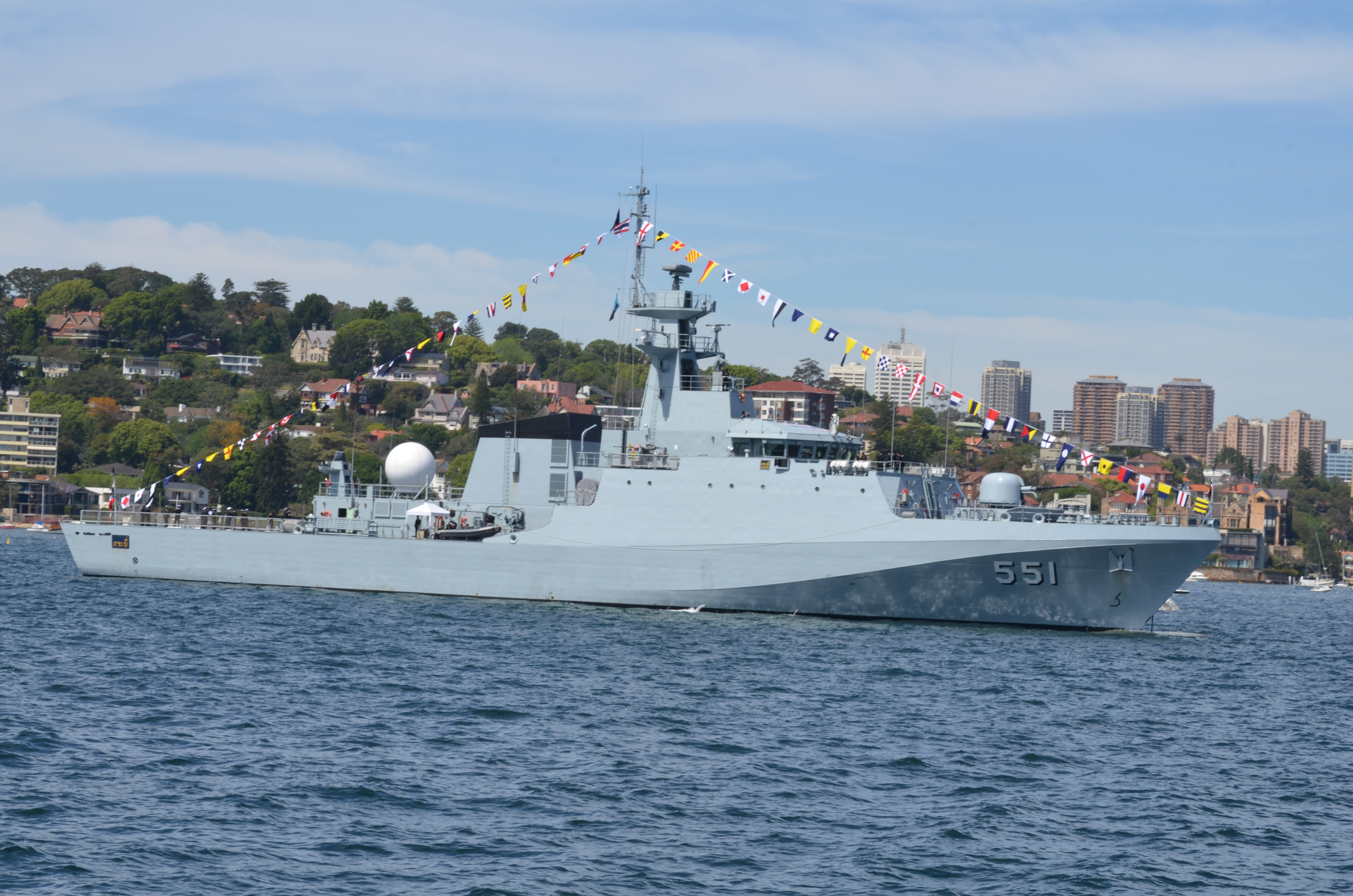 Photographs taken during day 3 of the Royal Australian Navy International Fleet Review 2013. Thai patrol vessel Krabi, moored in Sydney Harbour.